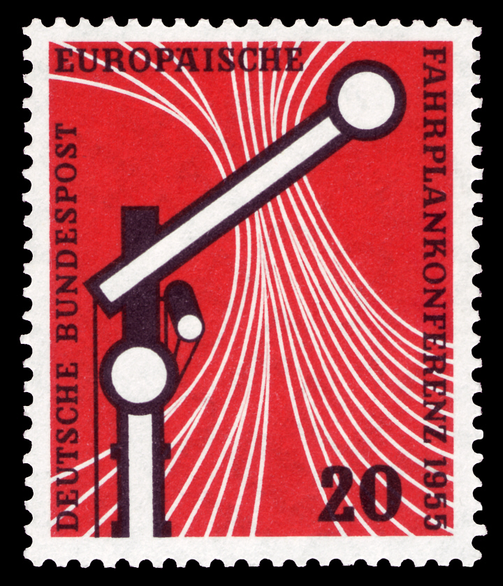 European Railway Timetable Conference in Wiesbaden Graphics by Stankowski Ausgabepreis: 20 Pfennig First Day of Issue / Erstausgabetag: 5. Oktober 1955 Michel-Katalog-Nr: 219